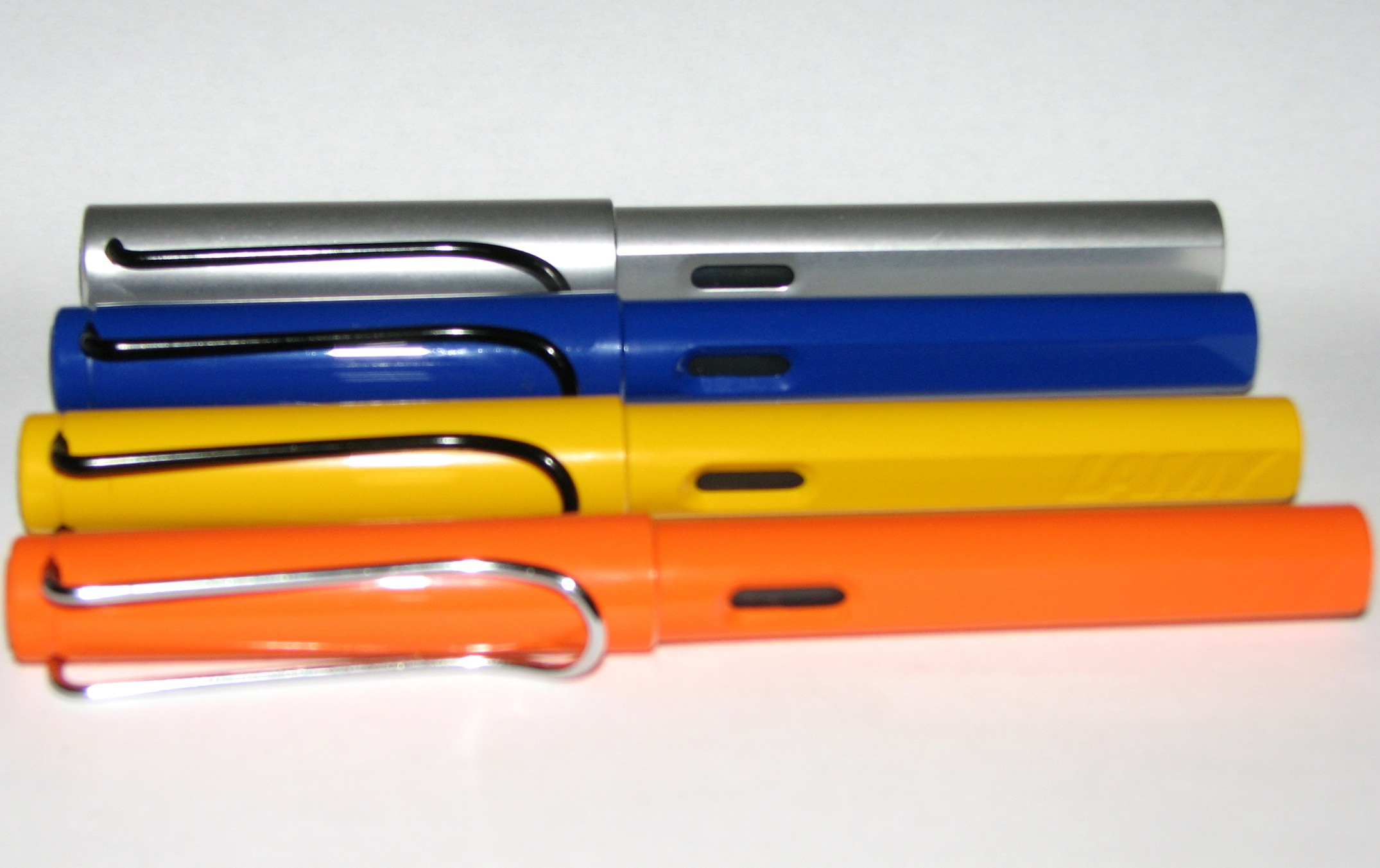 The collection of mrbill's Lamy fountain pens: Aluminum Al-Star, Fine nib Blue Safari, Fine nib Yellow Safari, Medium nib Orange Safari, Medium nib